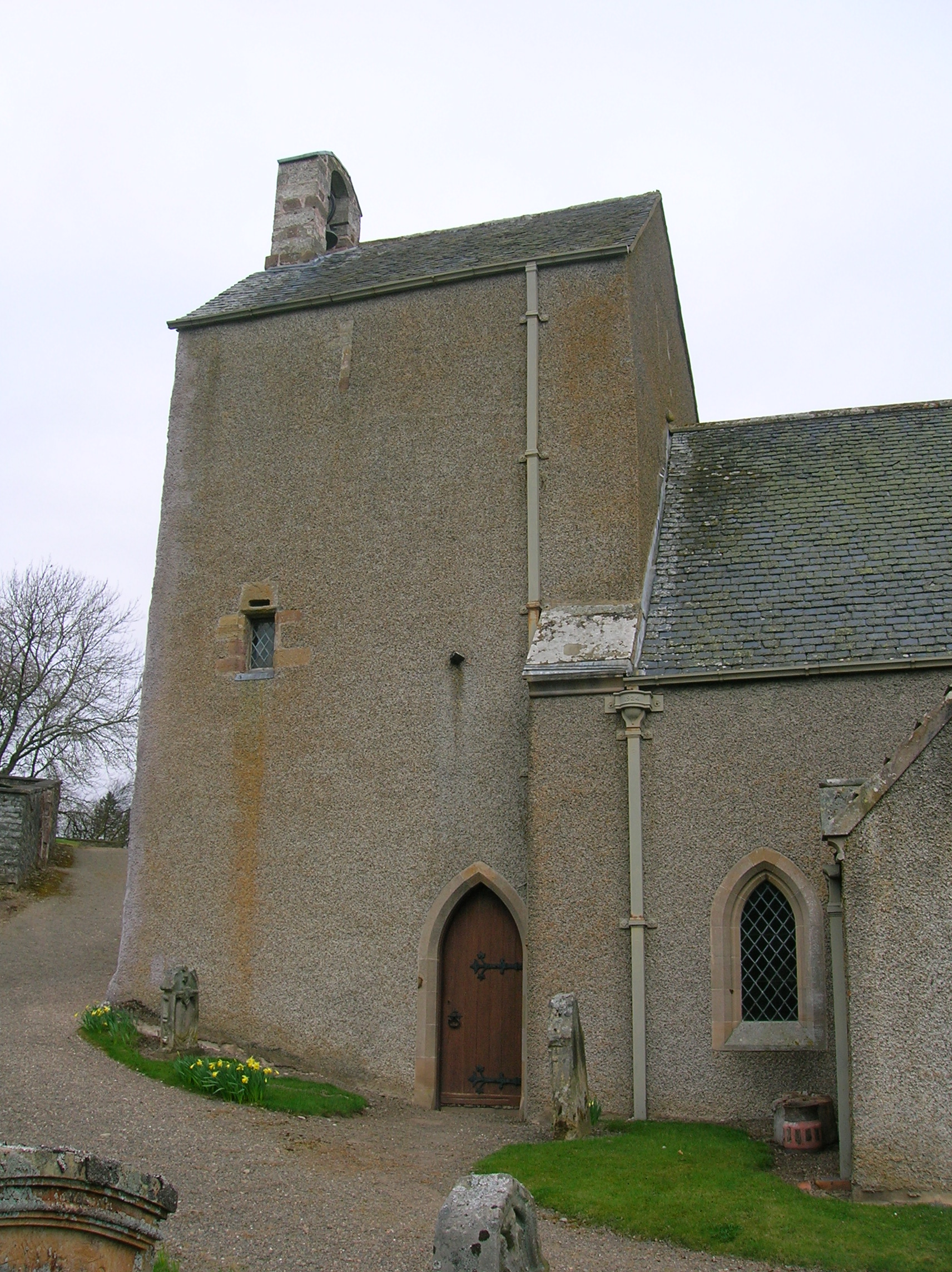 The tower of Stobo Kirk, Borders, Scotland.